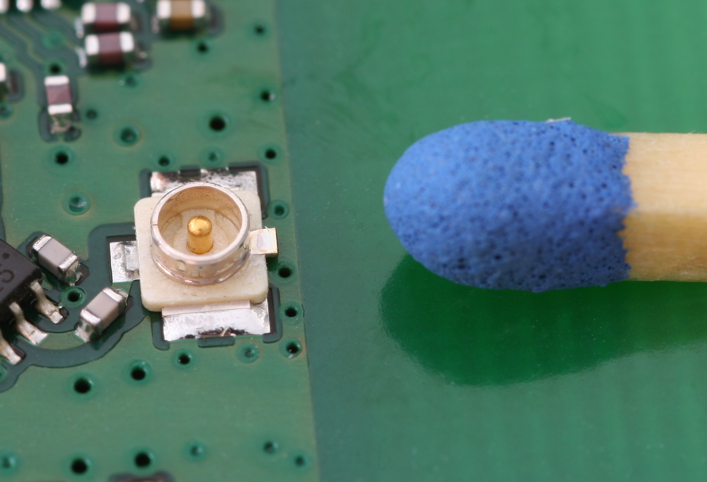 U.FL antenna connector as seen in a AVM Fritz!Box Fon WLAN 7170